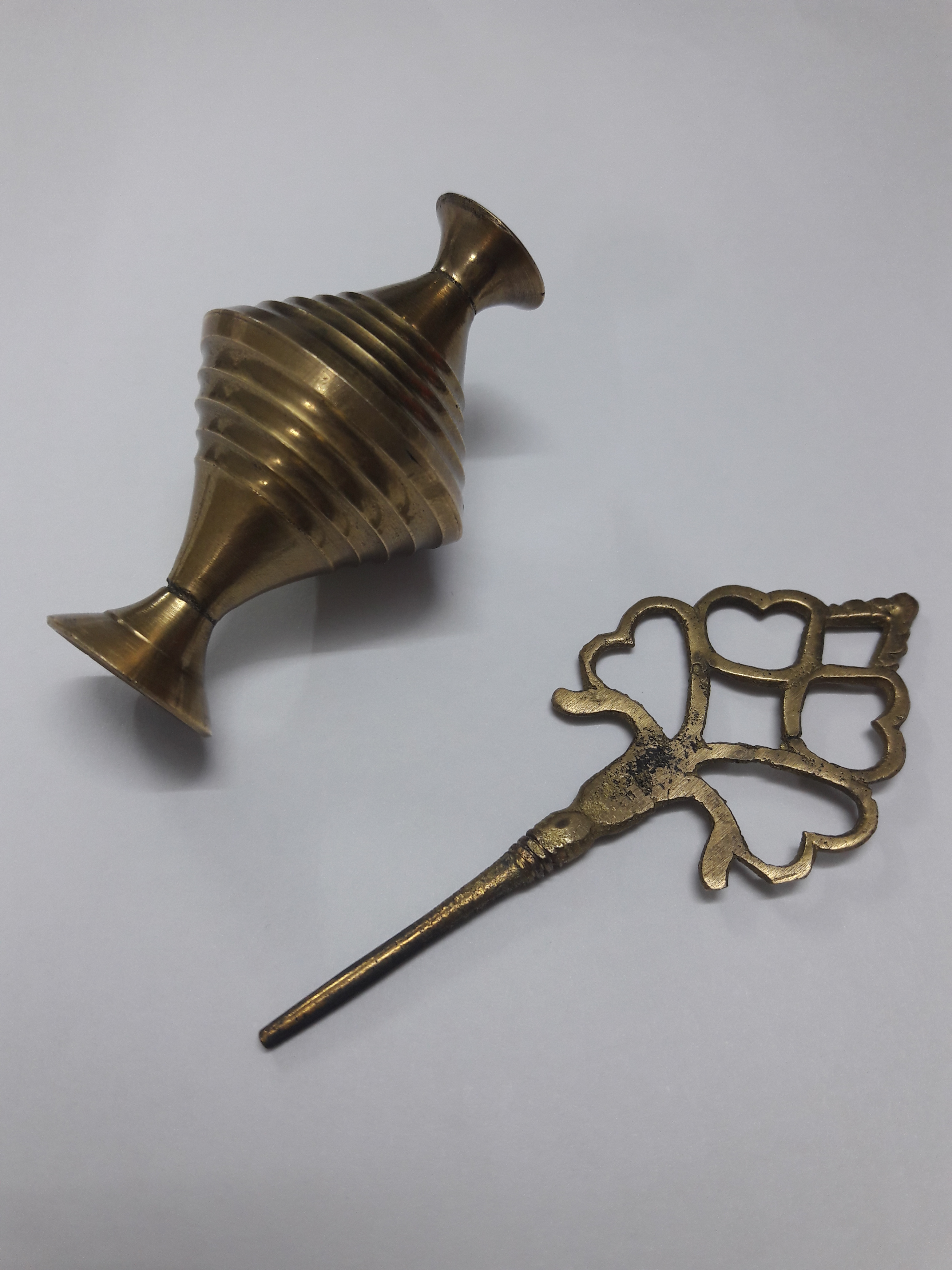 Eyeliner pot